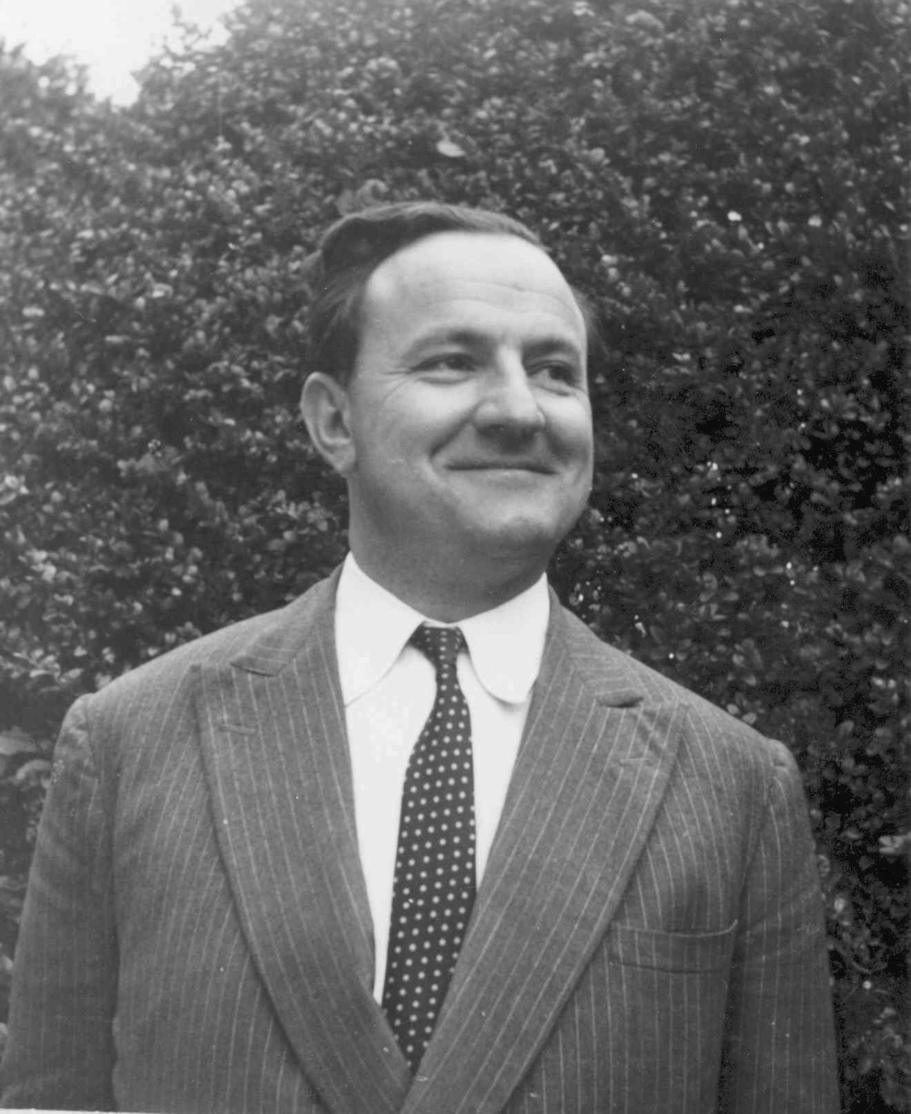 Scan of photo (by me R. de Salis, talk) 01:08, 20 May 2014 (UTC)) of Rolleiflex photograph of George Jellicoe (1960s) by Philippa, Countess Jellicoe. Rodolph 14:30, 30 April 2007 (UTC)